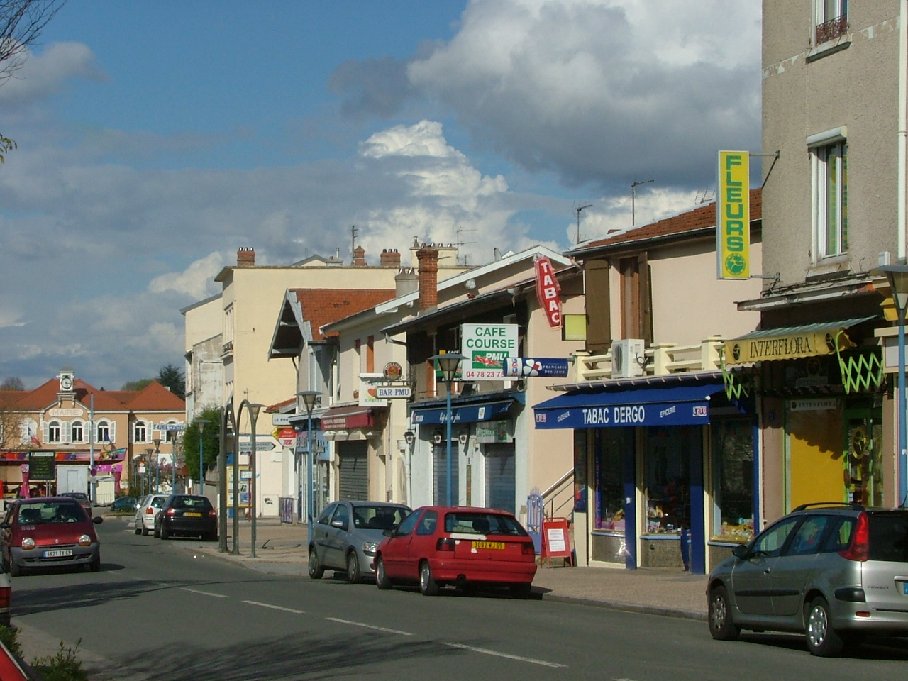 Boulevard Castellane in Sathonay-Camp , France